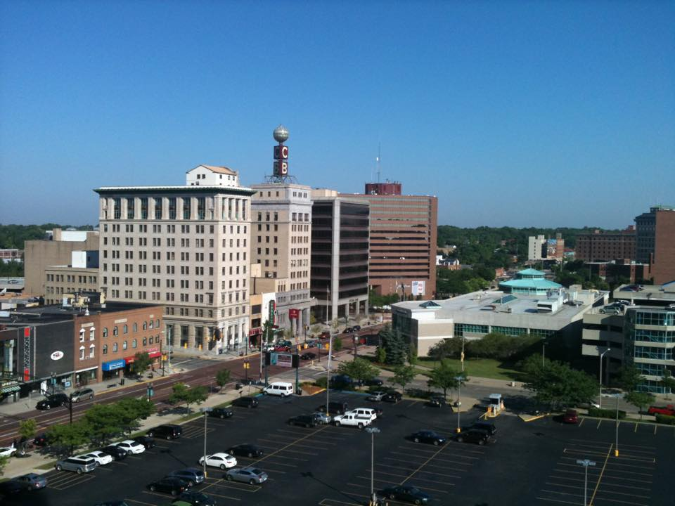 Downtown Flint Michigan taken from Genesee Towers, which was demolished. This view of Flint is now no longer possible.